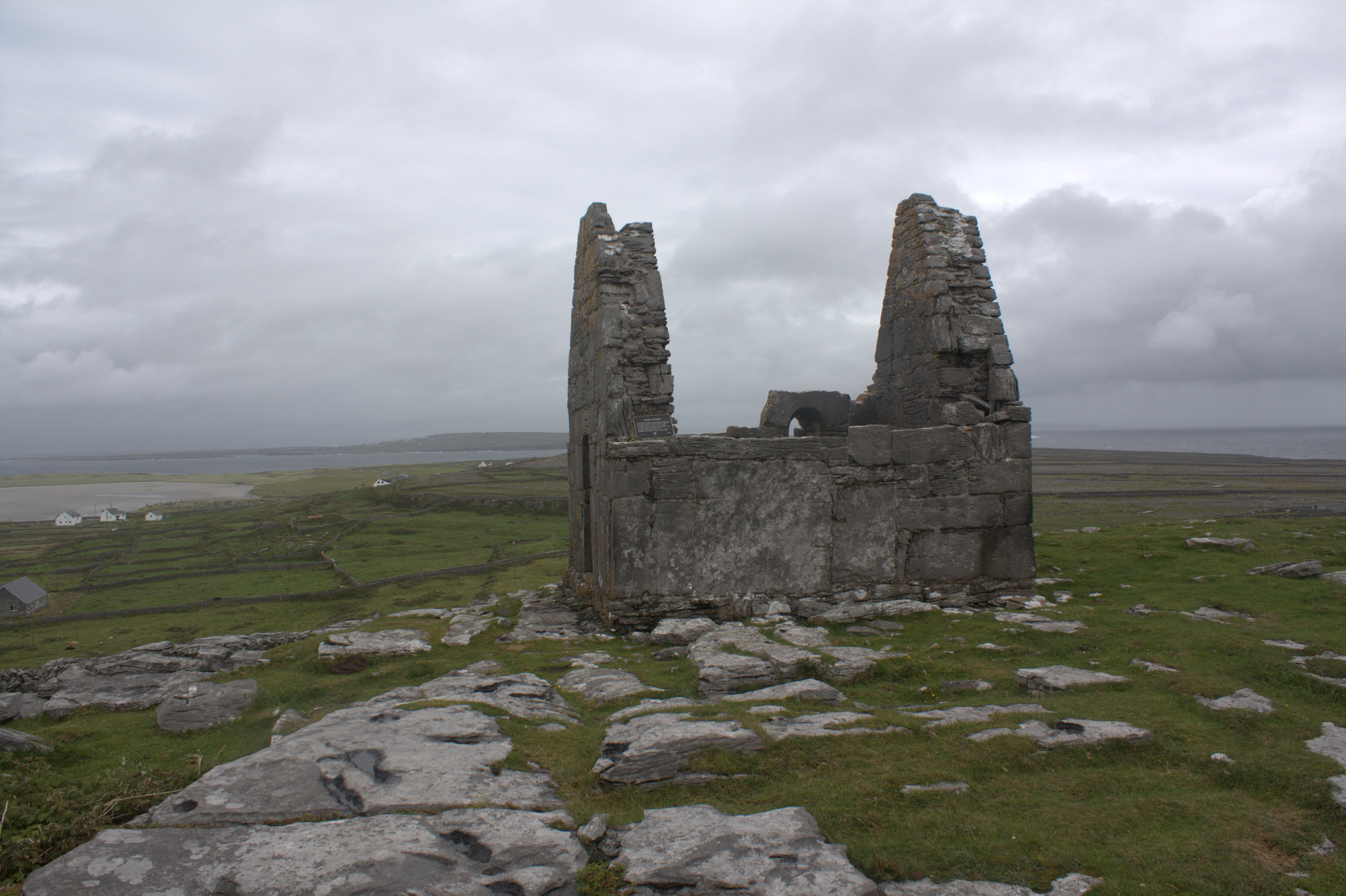 Tempull Bheanáin (Temple Benen), near Kilronan